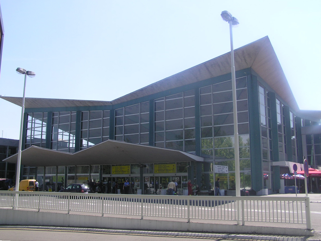 Exterior of Terminal 1 of the Belgrade Airport, Serbia